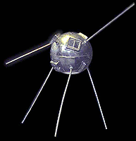 Vanguard TV3 satellite.